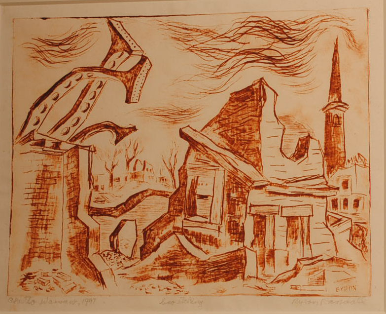 Lino etching by Byron Randall